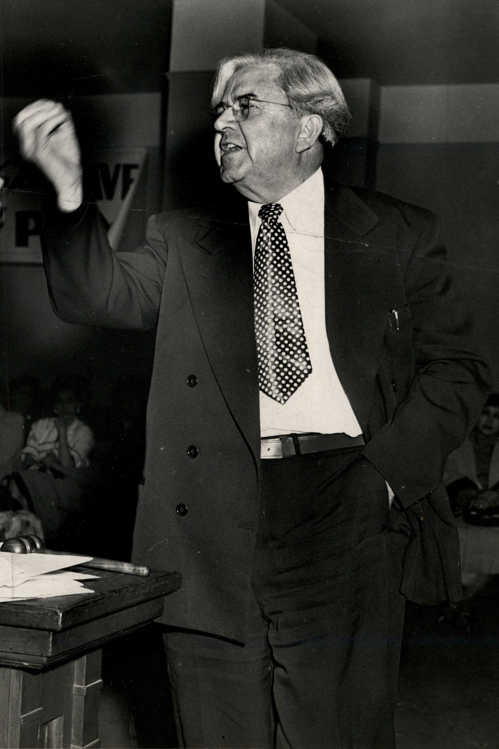 Reuben G. Soderstrom delivering a speech in 1954.